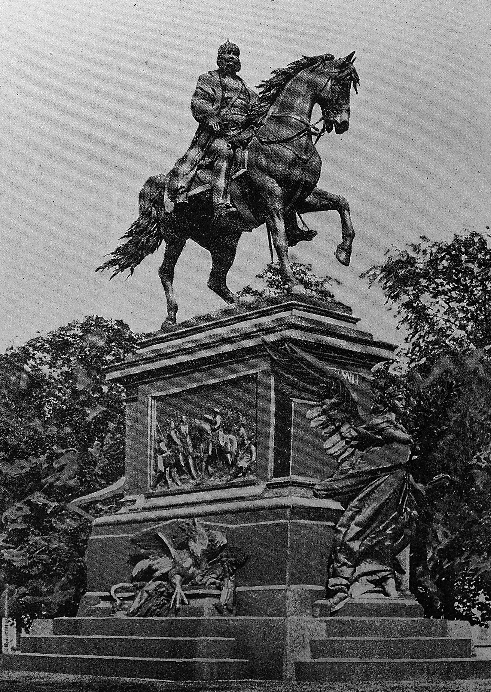 Memorial to Emperor Wilhelm I. of Germany in Karlsruhe, unveiled in 1897, sculpted by Adolf Heer